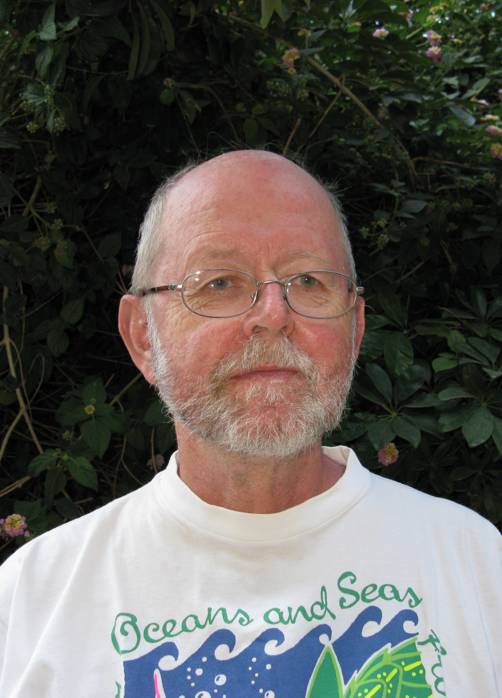 Father Walter Ludin, Capuchin